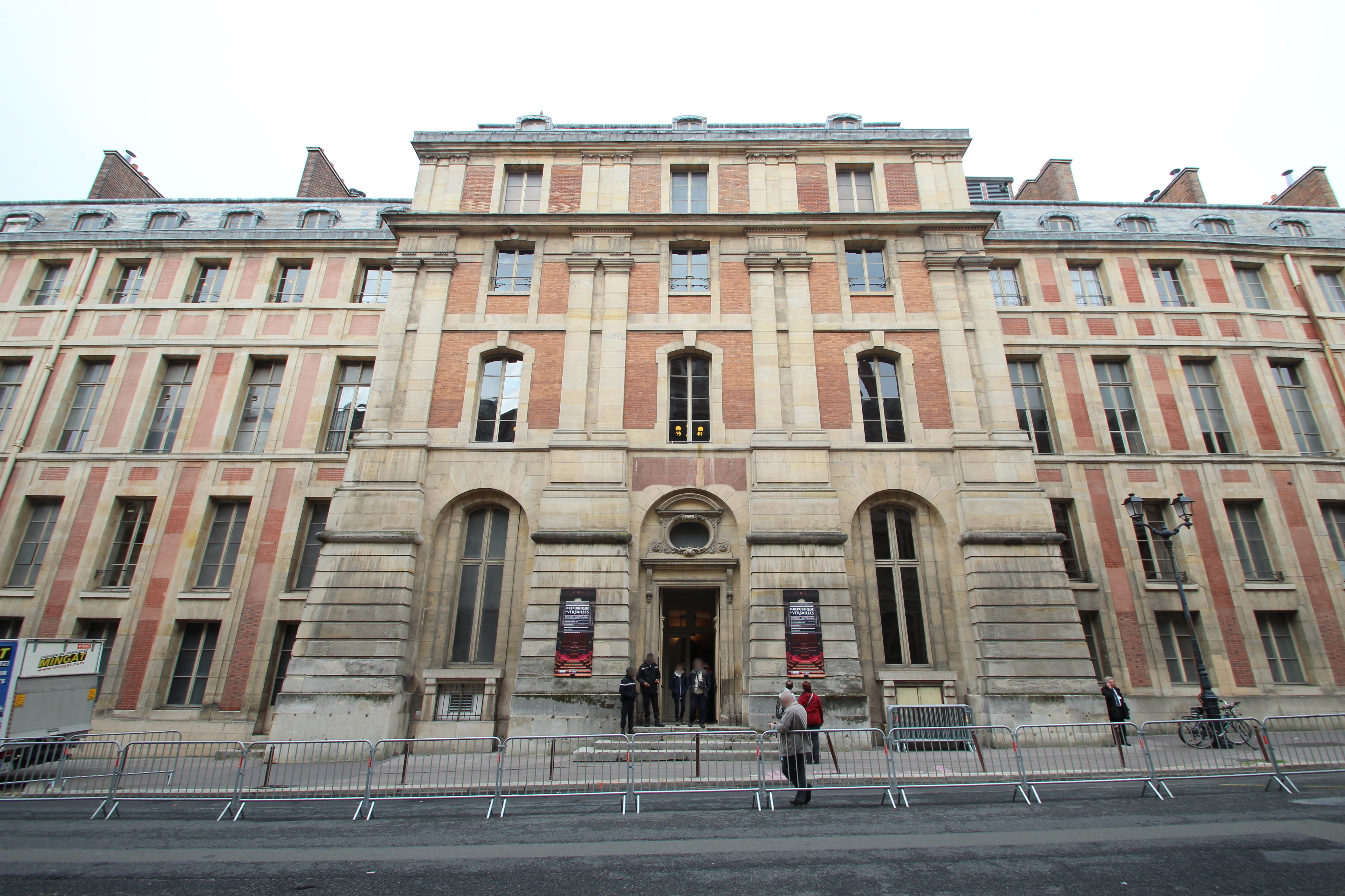 Aile du Midi (South Wing) of the Palace of Versailles, France as seen from the Indépendance américaine street. Object location48° 48′ 11.99″ N, 2° 07′ 15.6″ E .